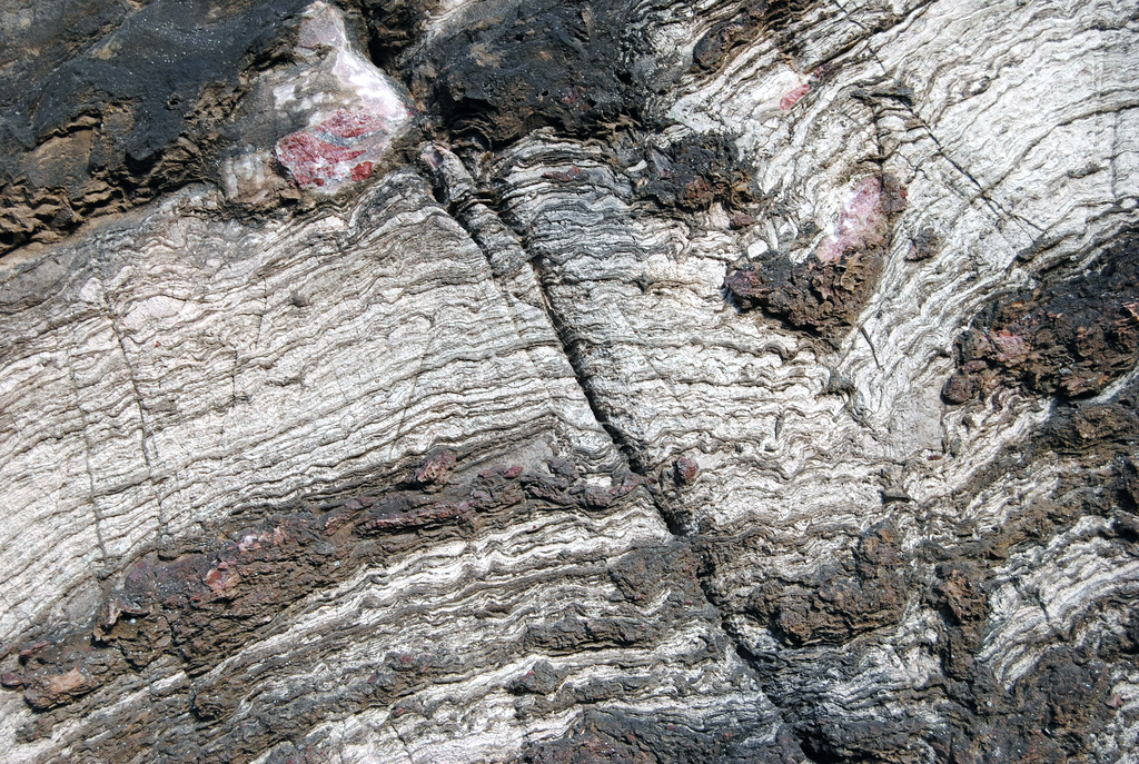 Silicified stromatolitic metadolostone - nice stromatolite in the Kona Dolomite from the Precambrian of northern Michigan, USA. Stratigraphy: Kona Dolomite, Chocolay Group, lower Marquette Range Supergroup, Paleoproterozoic, 2.2 to 2.3 Ga. Locality: roadcut on northern side of County Road 480 in the Ragged Hills (= W1/2 SW1/4 Section 8, T47N, R25W, Sands 1:24,000 USGS topographic map), south-southwest of Carp River Lake, just west of gravel pits, southwest of the town of Marquette, northern Marquette County, northern Upper Peninsula of Michigan, USA. Stromatolites are large, layered structures built up by mats of cyanobacteria. Stromatolites vary in appearance, ranging from slightly wrinkled horizontal laminations in sedimentary rocks to low mounds to prominent mounds to columnar structures and other forms. Stromatolites are most common in the Proterozoic fossil record. They are scarce today, but famous modern examples occur at Shark Bay, Western Australia.